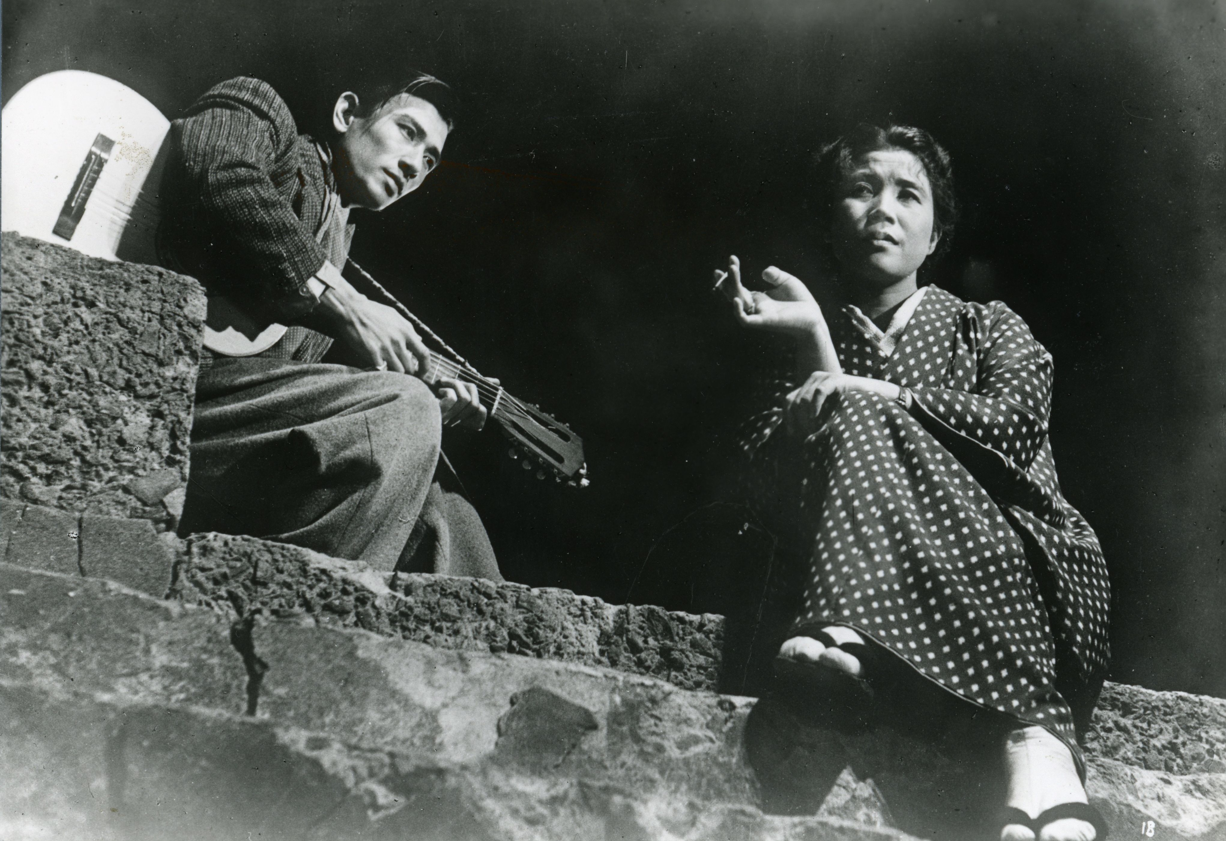 Still photo of Nihon no Higeki (1953)